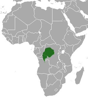 Black Crested Mangabey (Lophocebus aterrimus) range